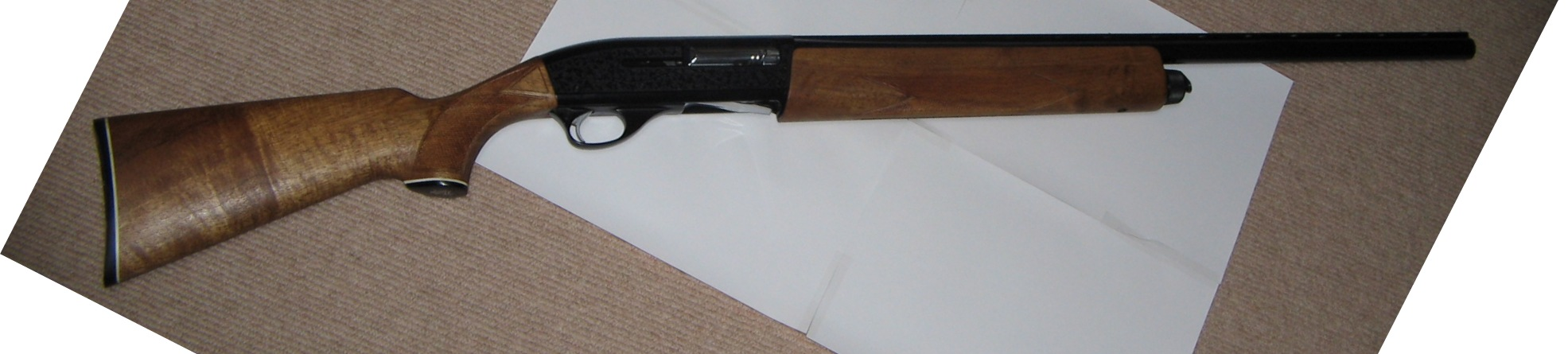 The Fuji Super-auto model 2000 the first gas pressure automatic type shotgun in Japan.